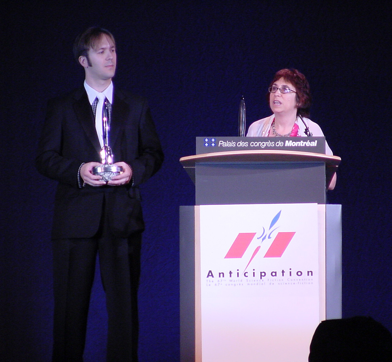 Ann VanderMeer accepting 2009 Hugo Award